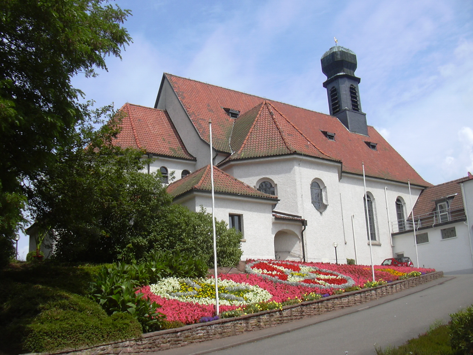 Pilgrims' Church Saint Mary at Maria Rosenberg, Burgalben, Palatinate, Germany